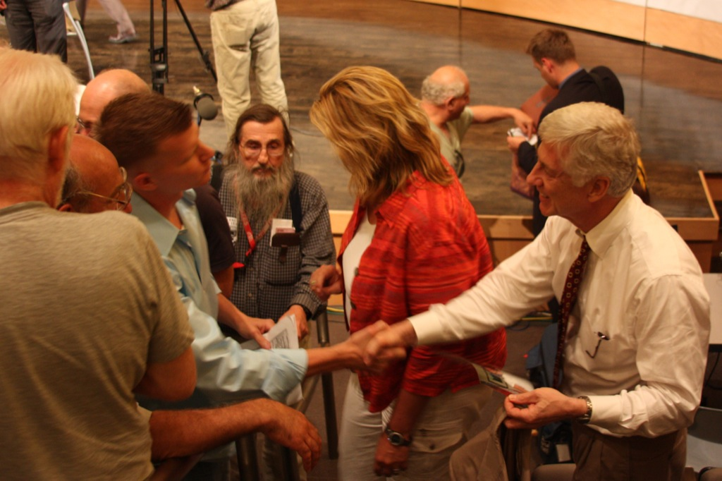 Rocky Anderson meets Andy Figorski, an Iraq war veteran who will be speaking August 2nd at a peace rally